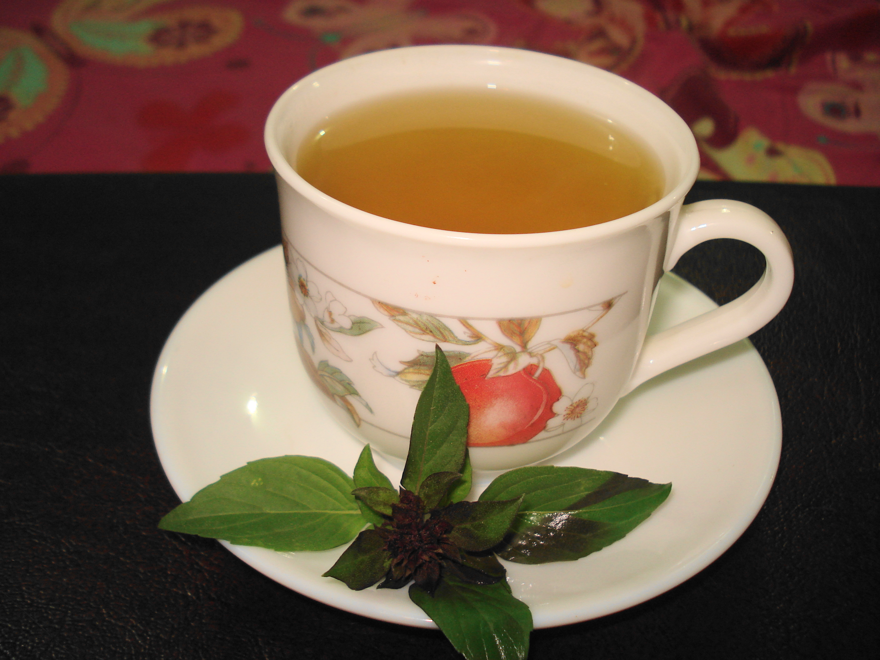 Tulsi ka qahwa, Niaz bo ka Kahwa, very effective in cold and flu